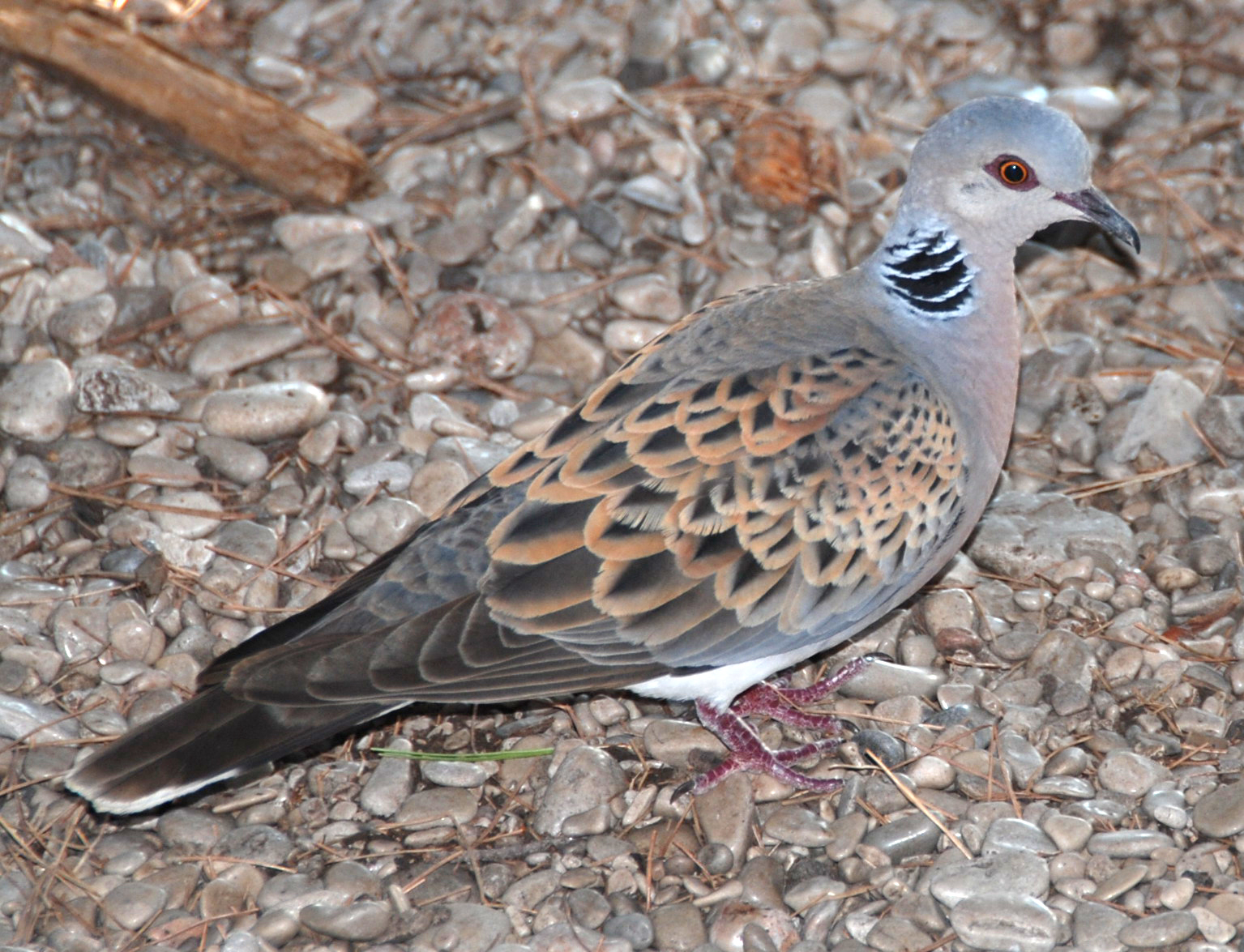 Turtle Dove